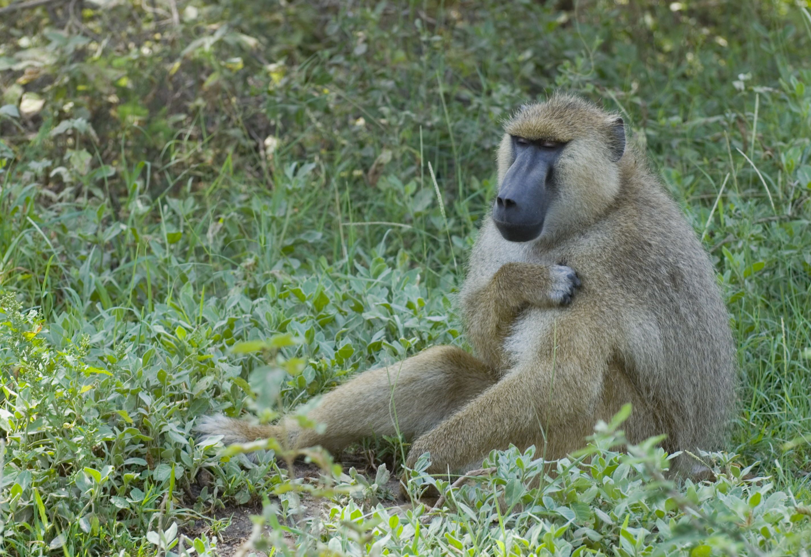 Yellow Baboon Papio cynocephalus, Amboseli National Park, Kenya